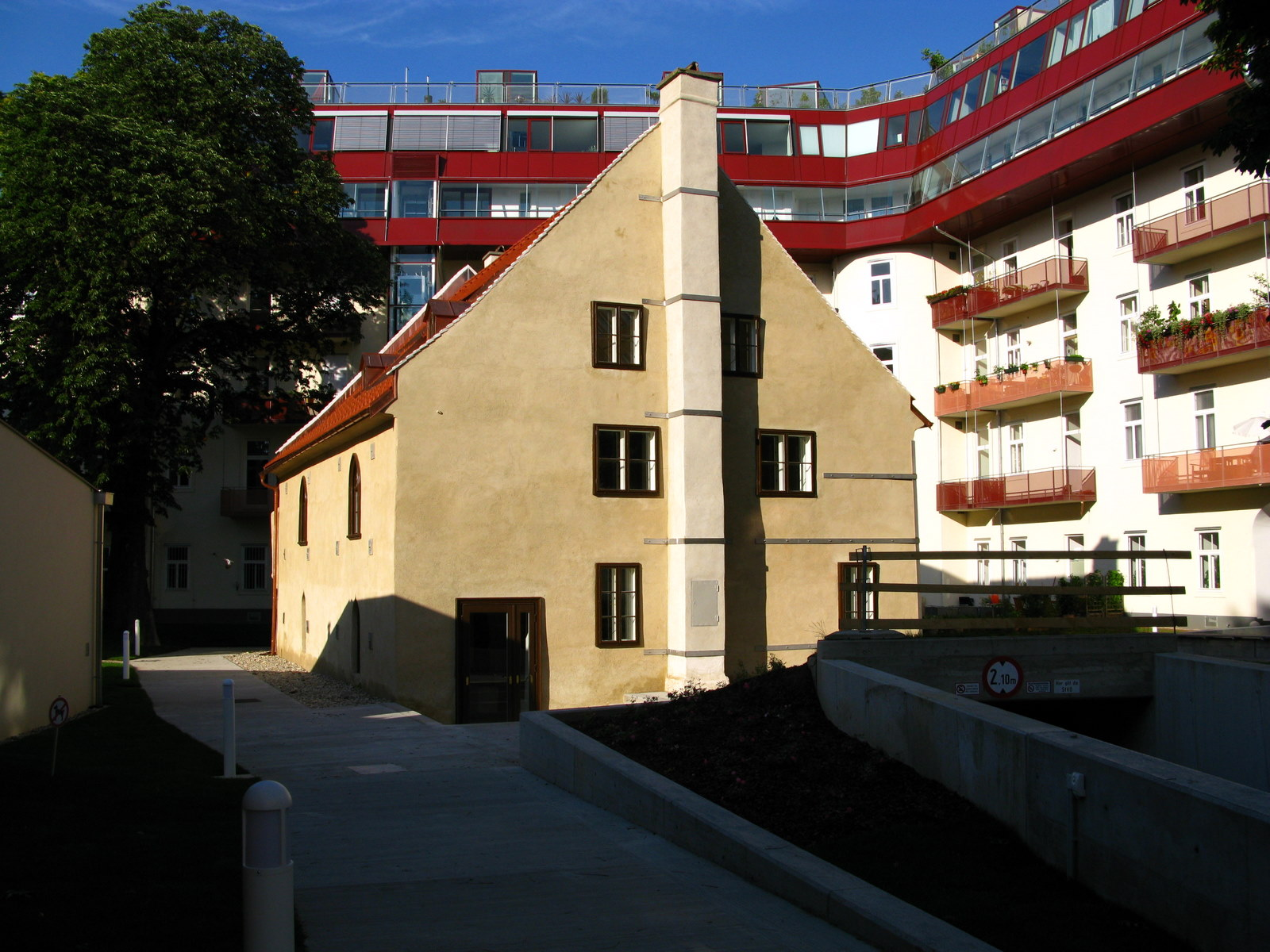 The Heumühle in Vienna's 4th district (Wieden). The building, erected in 1326, was used as a water mill until 1856 and is supposed to be Vienna's eldest still existing private building. Its name would be translatesd as "Hay-Mill". The building was restored in 2007-2008.